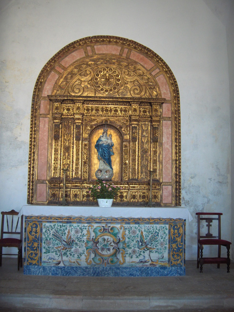 Altar of the Church of Nossa Senhora da Graça, founded by Henry the Navigator; Fortress of Sagres; Sagres, Portugal.